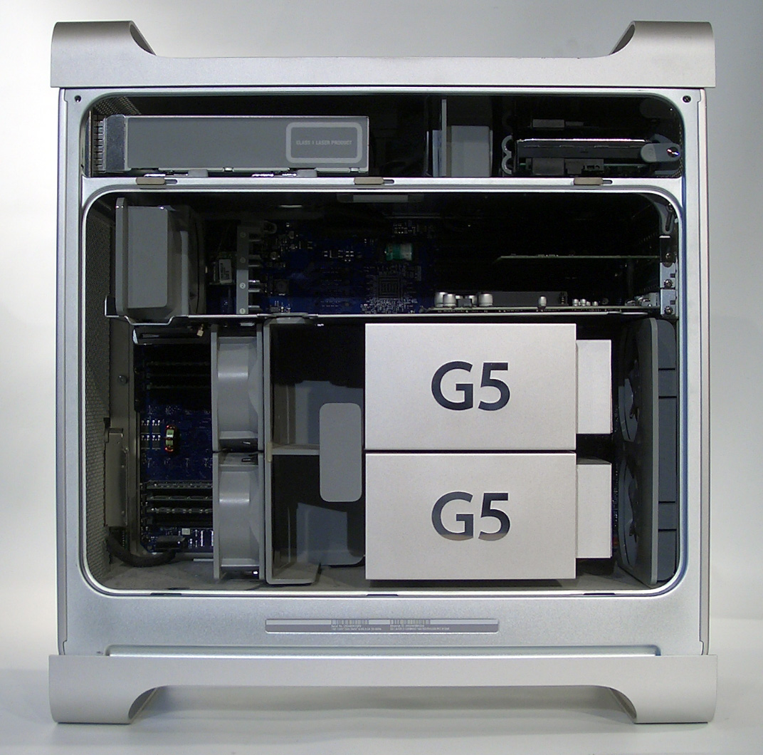 A Power Mac G5 1.8 Dual, open case. Photo by User:Grm_wnr.